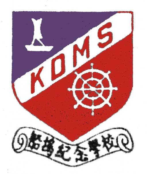 School Badge of Kowloon Docks Memorial PM School